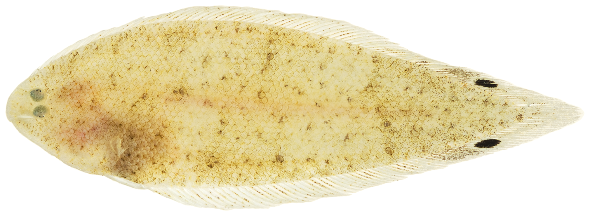 Symphurus ommaspilus Böhlke, 1961—ocellated tonguefish, 42.9 mm SL. Photo by JT Williams.